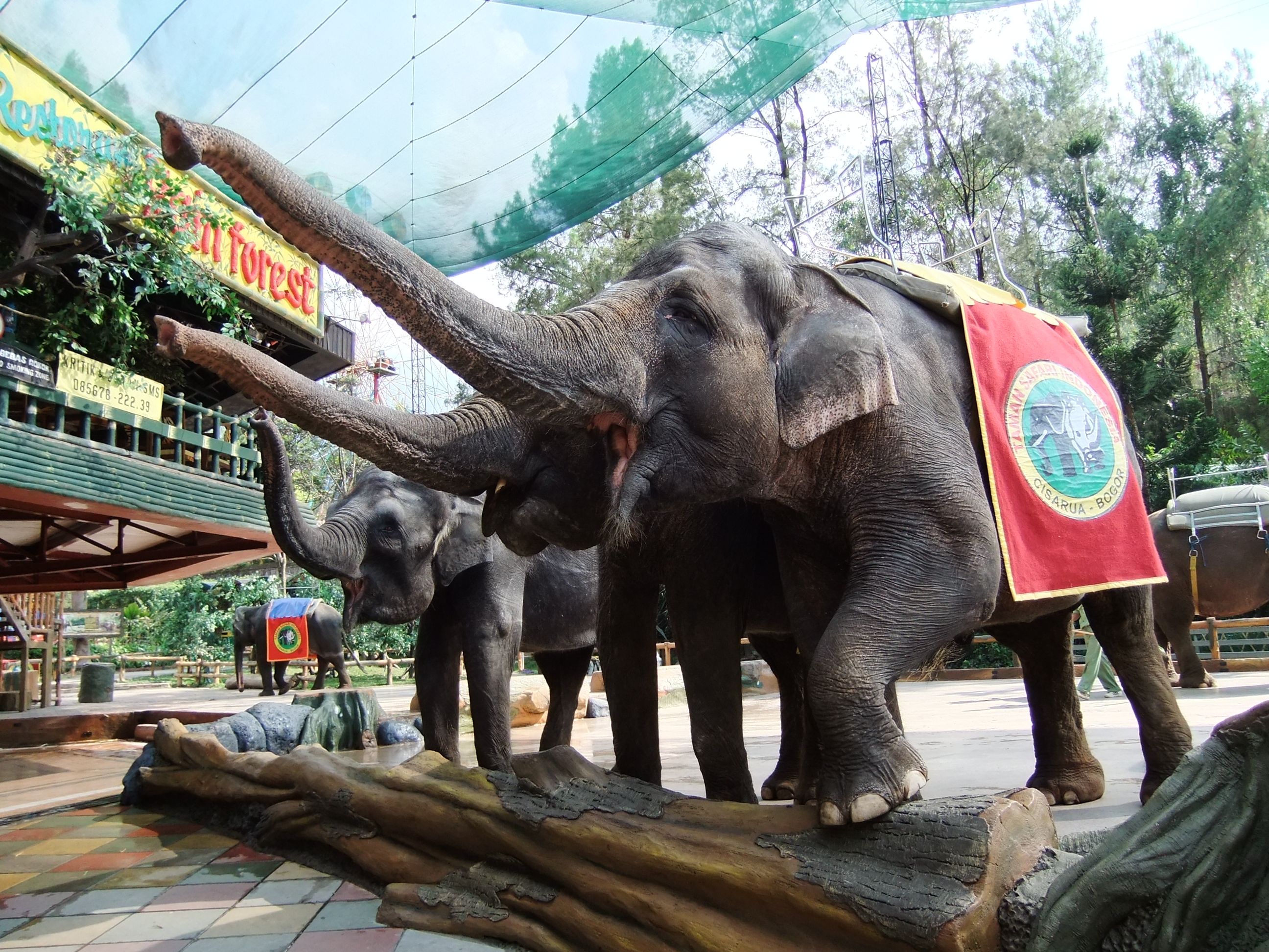 Sumatran Elephant, Elephas maximus sumatranus, Safari Park, Cisarua, West Java, Indonesia